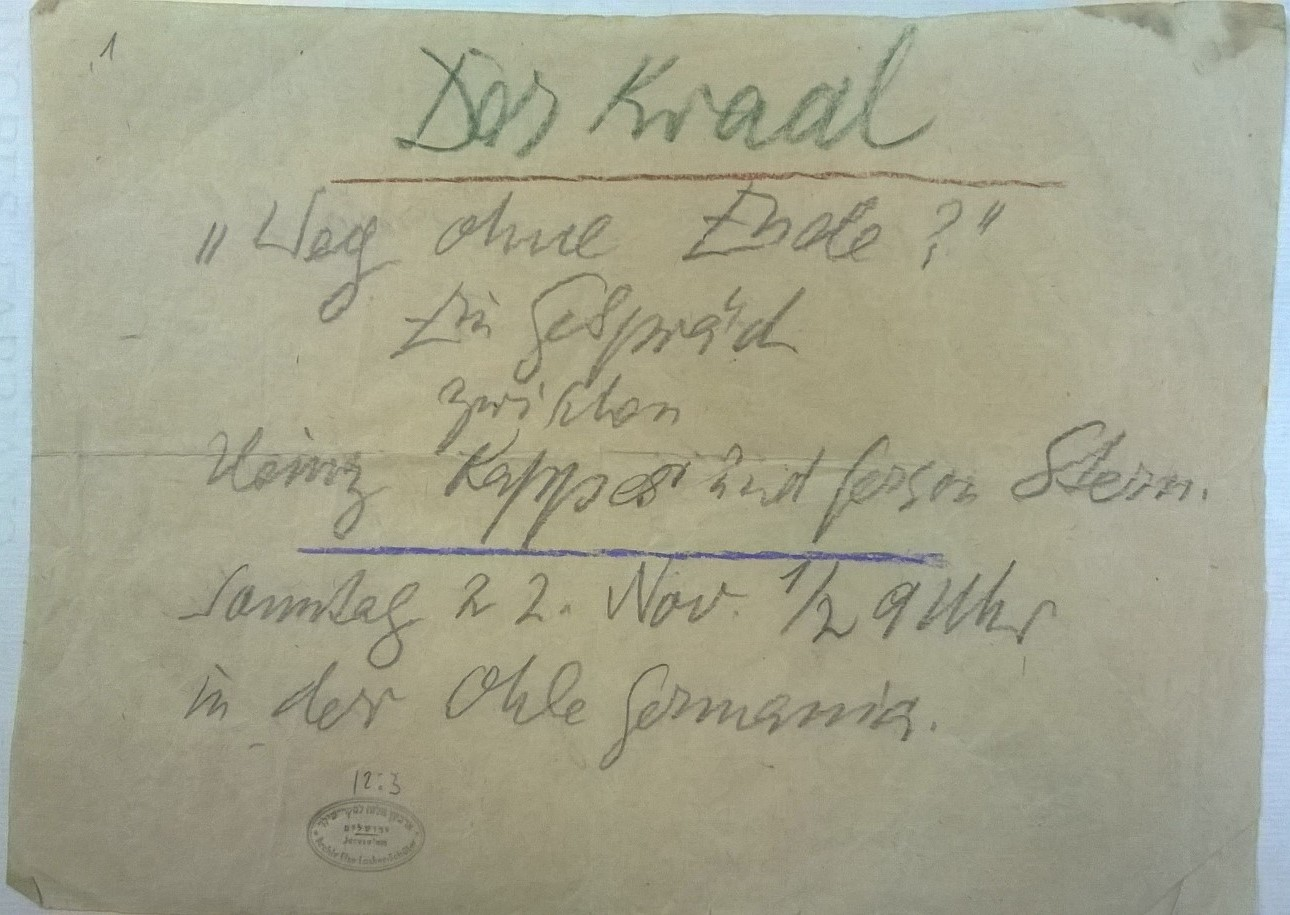 Der Kraal